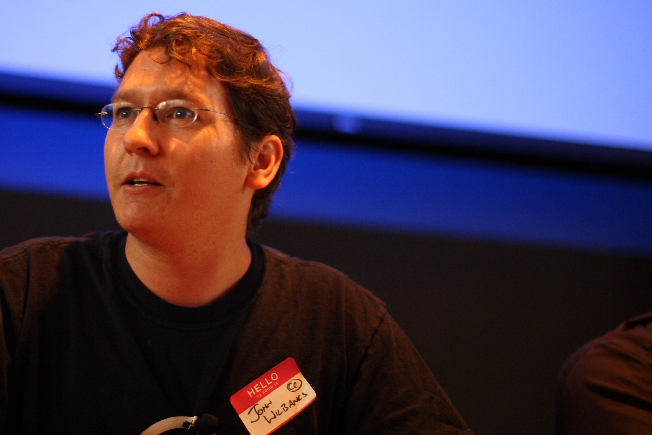 John Wilbanks of Science Commons, at 2007 National Conference.